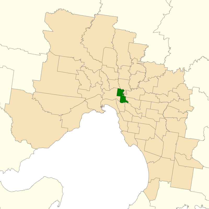 Location of the Victorian electoral district of Richmond (dark green) in the Greater Melbourne area.